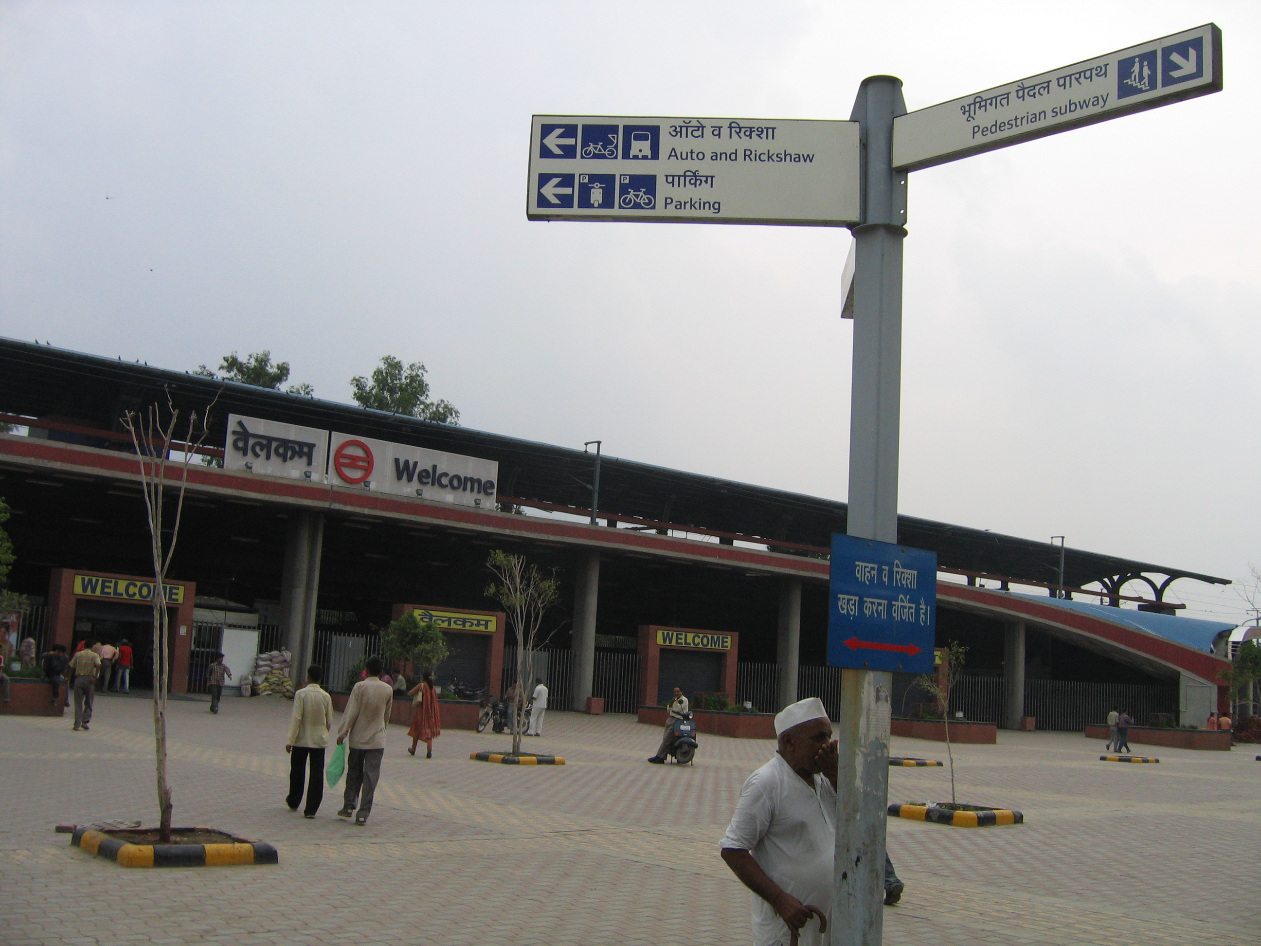 Welcome metro station, New Delhi, India